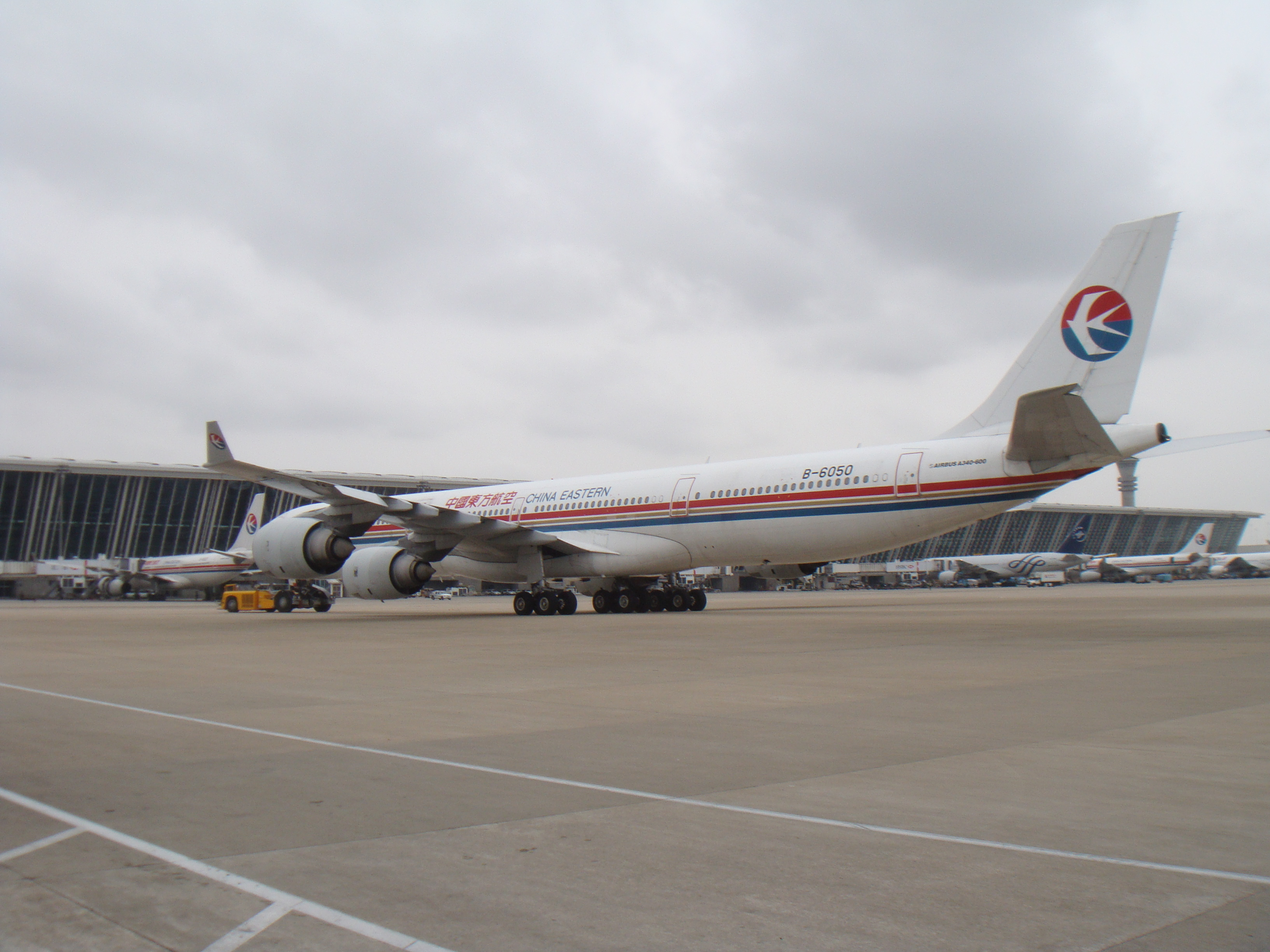 B-6050 (cn 468) taxing to gate after landing ZSPD RWY 35L.